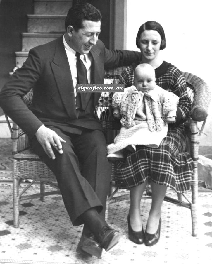 Ludovico Bidoglio with his wife and son.